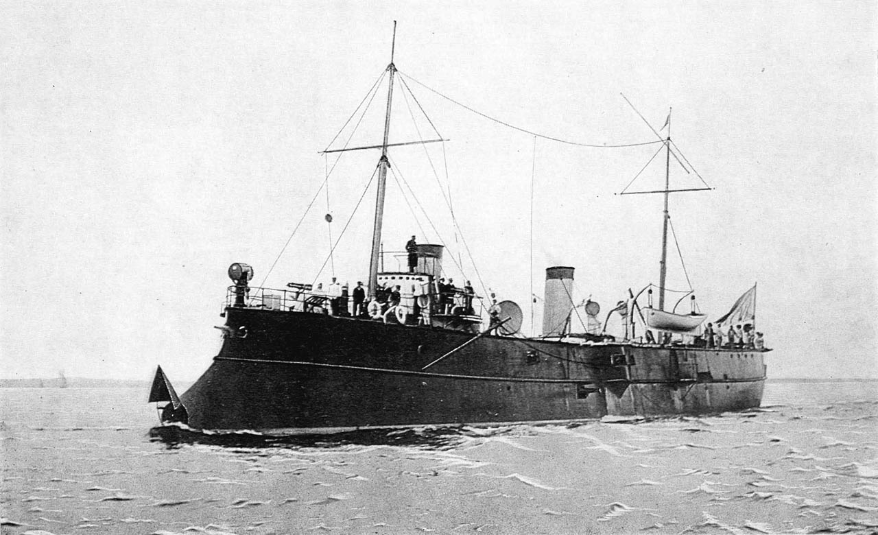 Imperial Russian torpedo cruiser Leitenant Il'in.